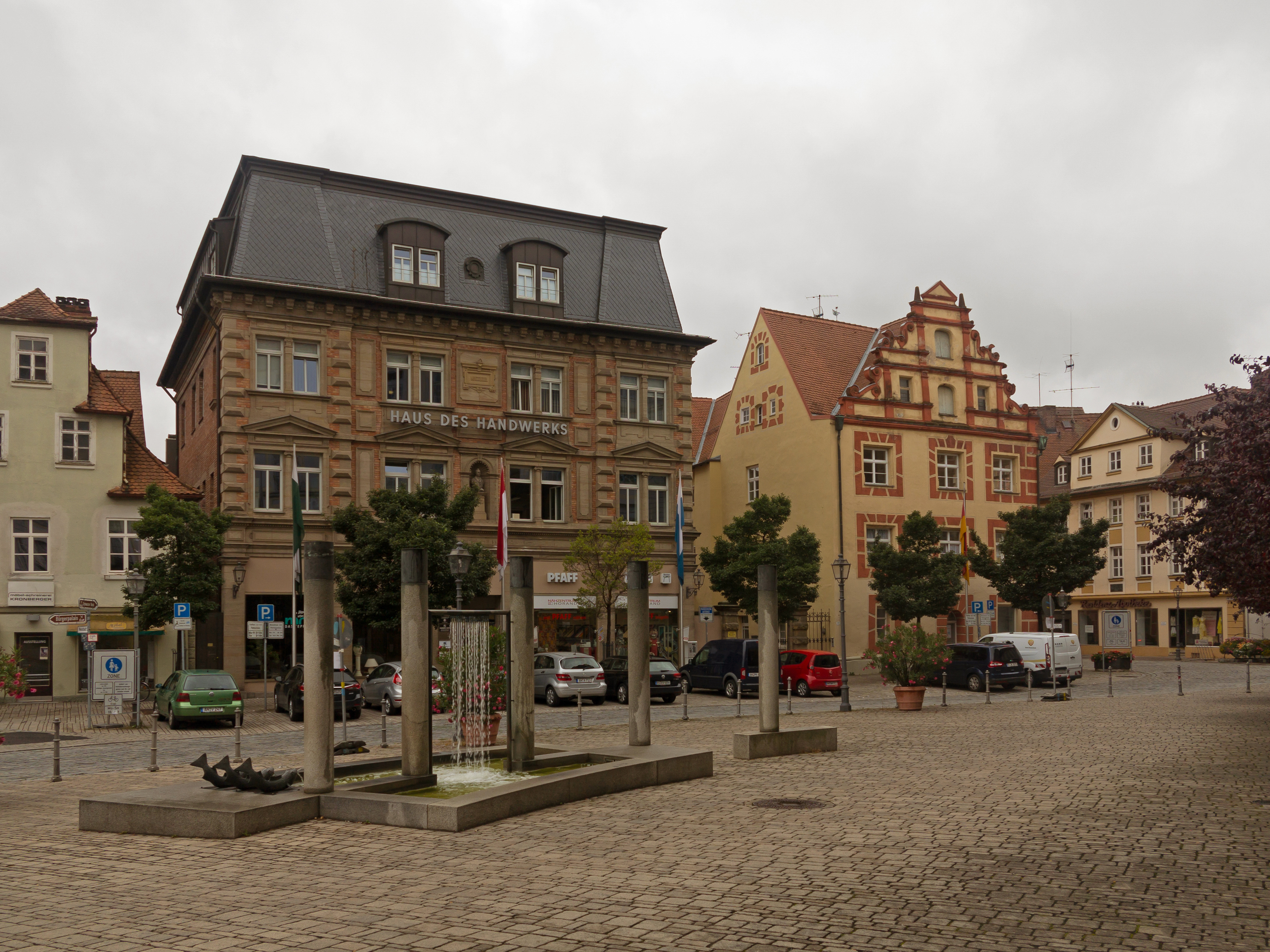 Ansbach, monumental building: ehemaliges Gebäude des Gewerbevereins AnsbachThis is a photograph of an architectural monument.